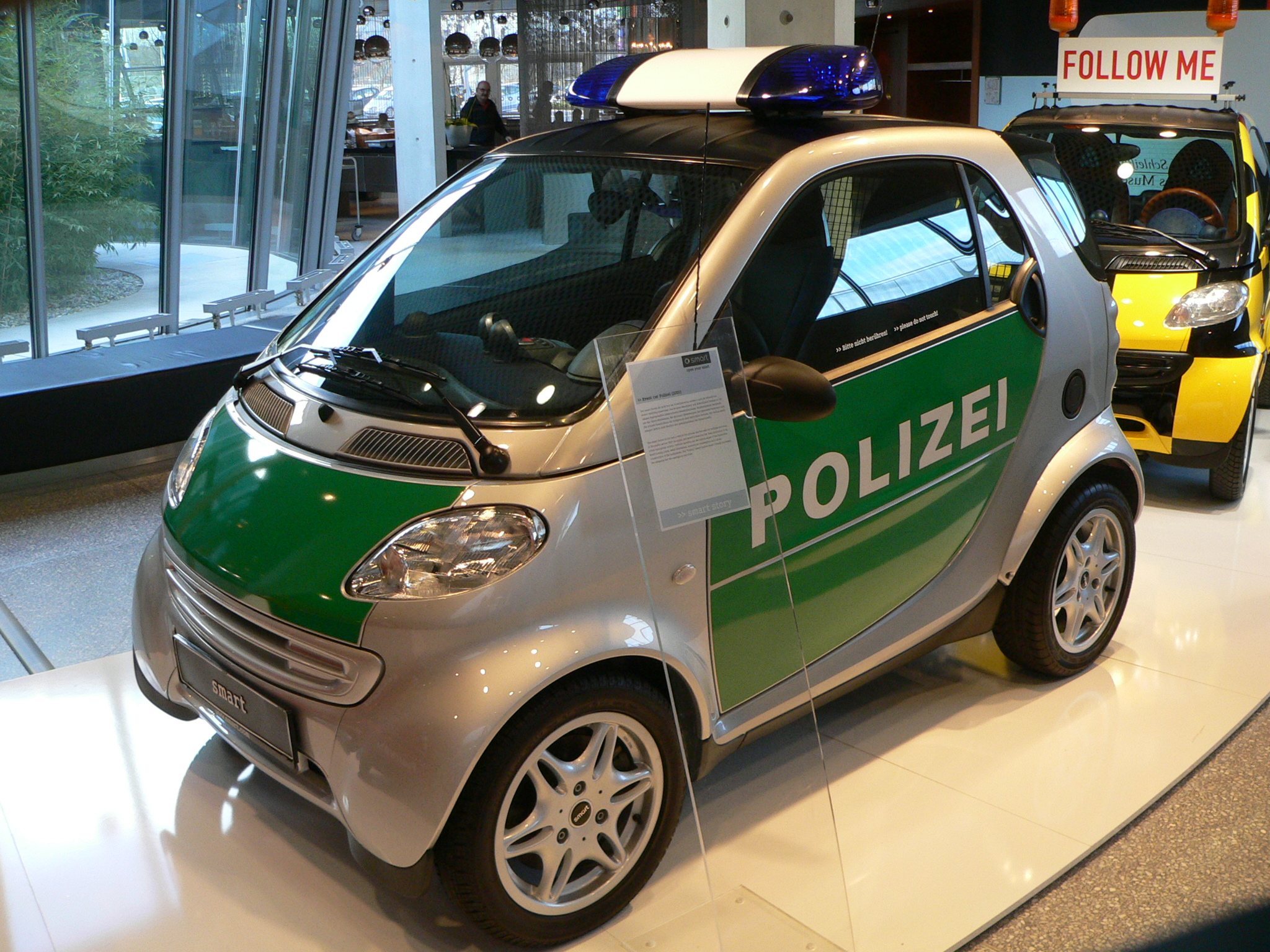 Police-Smart in the Mercedes-Benz-Museum, Stuttgart, Germany